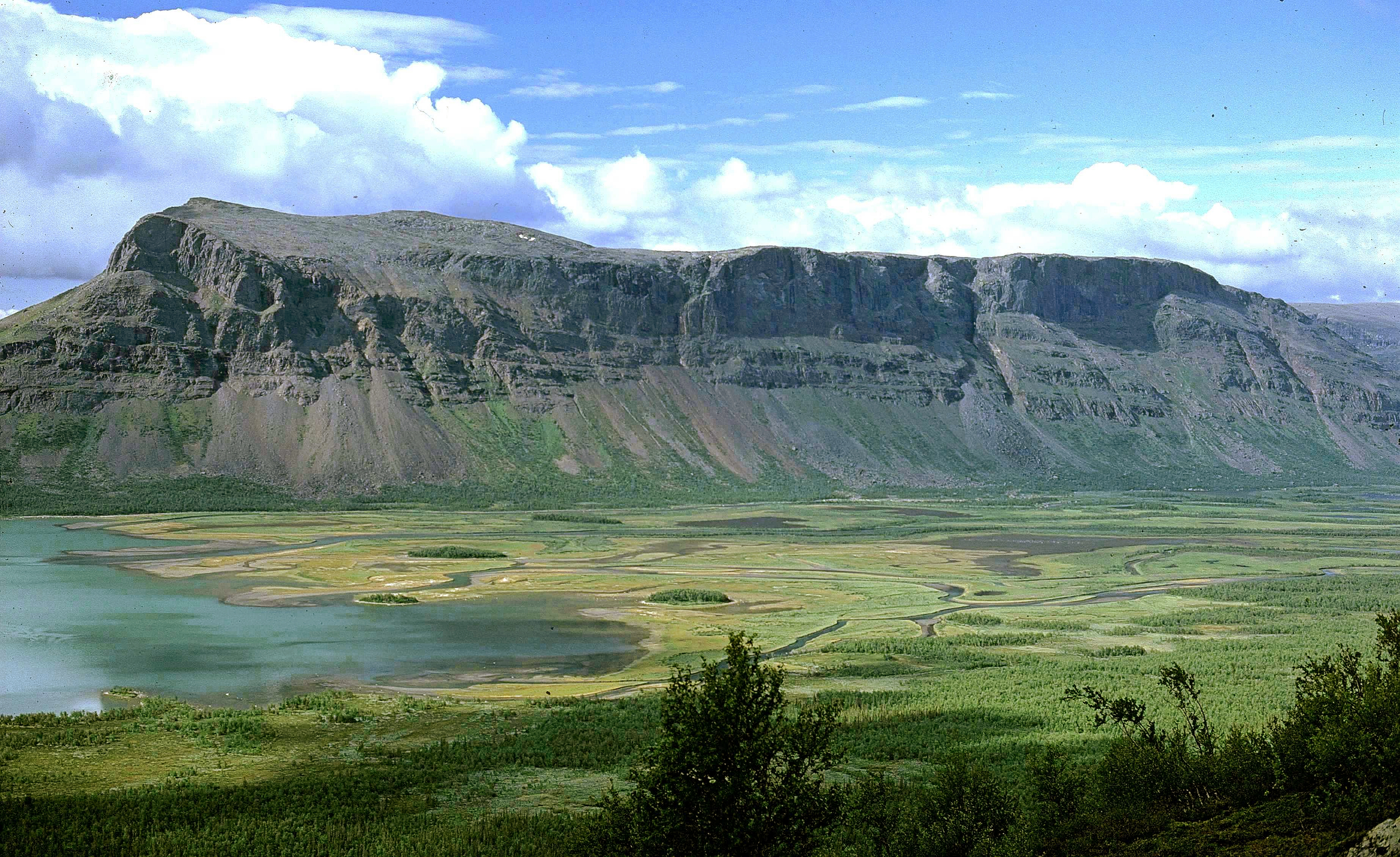 Tjakkeli, a mountain in Sarek national park